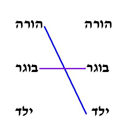 Concepts in Eric Berne's Transactional Analysis